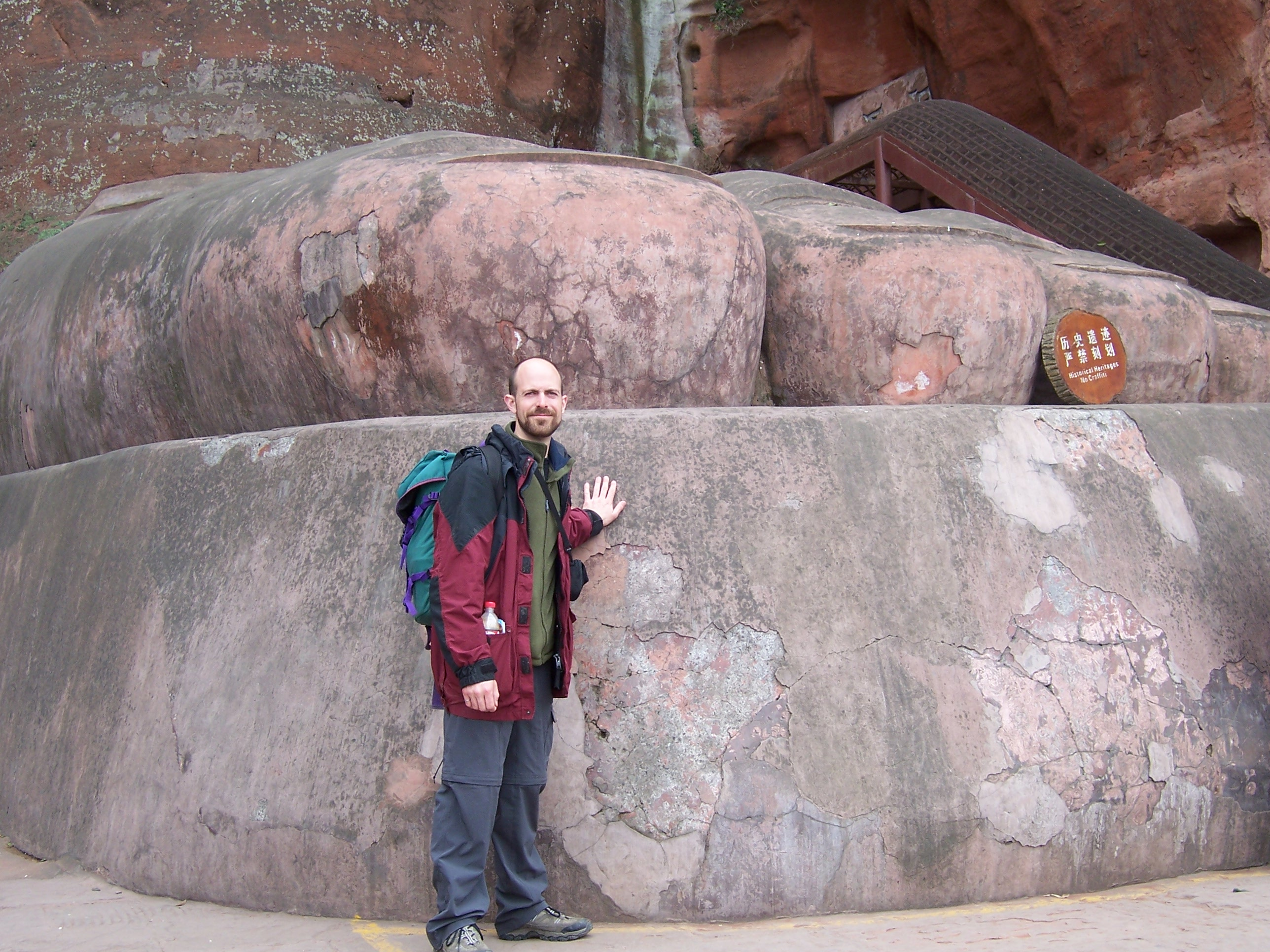 Foot of Leshan Giant Buddha.